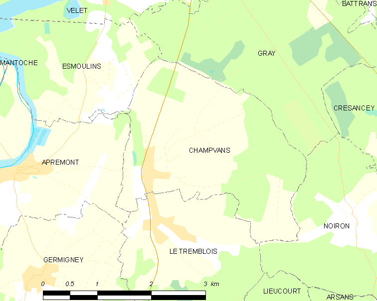 Map of French municipality